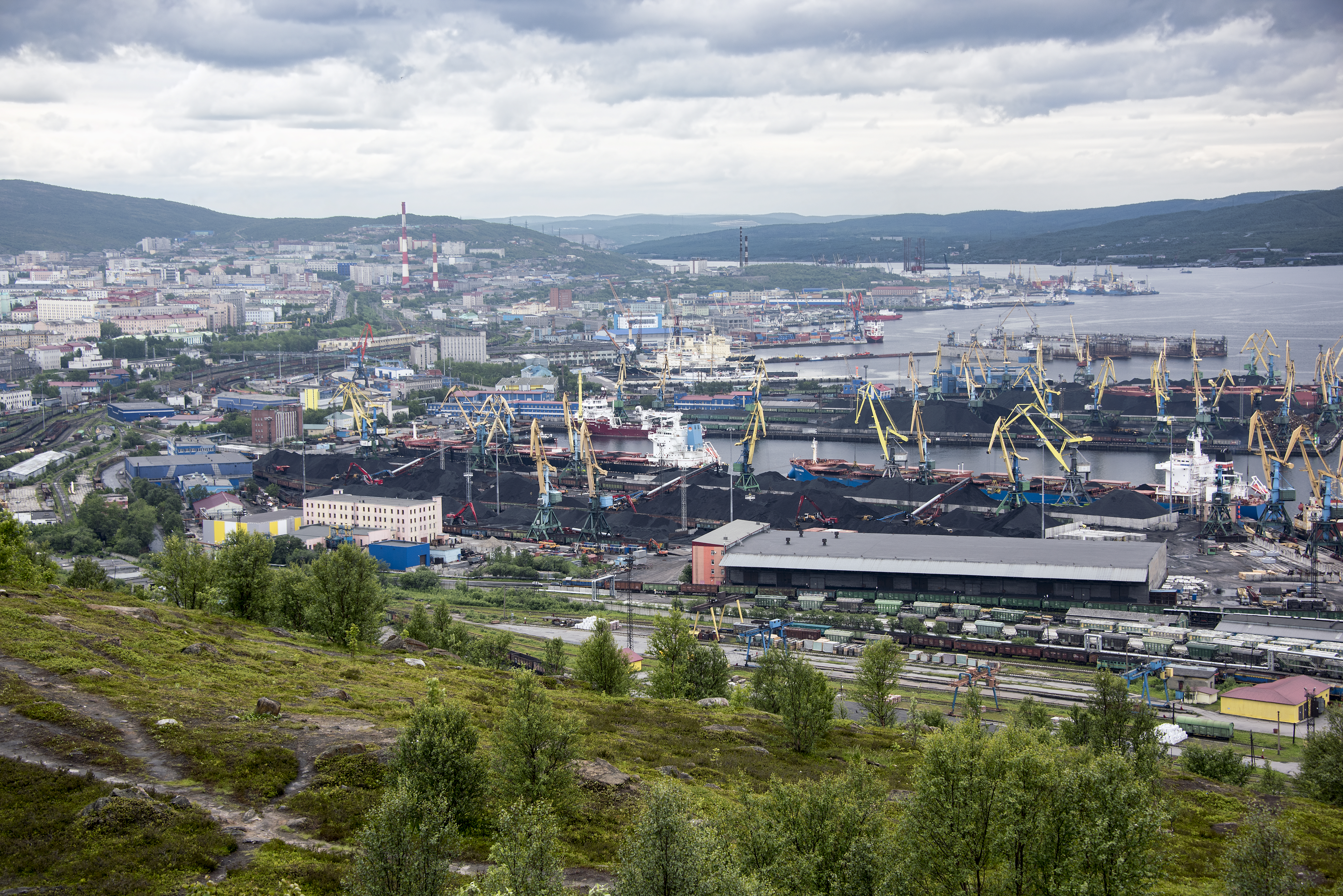 NORTH POLE North Pole Keep